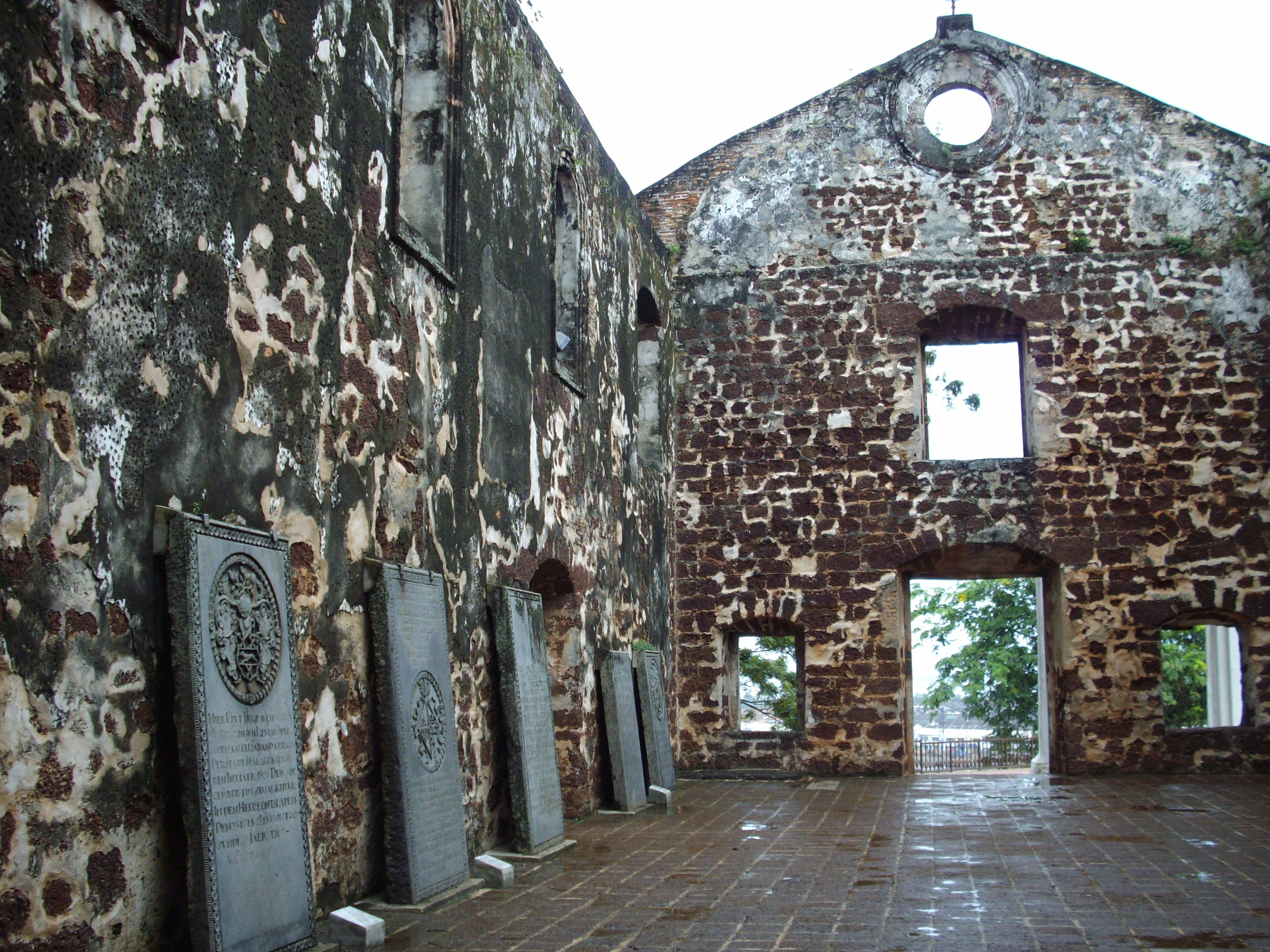 Internal ruins of "St Paul's Church" with Dutch and Potuguese tombstones.